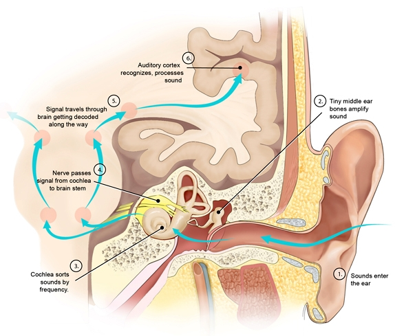 Steps involved in hearing speech: Sound signals travel from the ear to the brain where they are recognized and decoded, as detailed in the illustration.